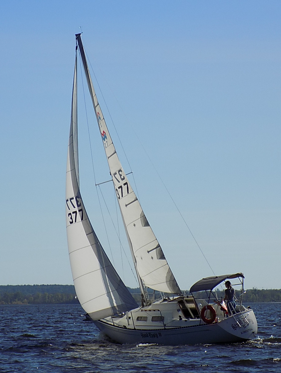 A Mirage 27 sailboat named Stand Easy II on Lac Deschênes, part of the Ottawa River, Ottawa, Ontario, Canada.